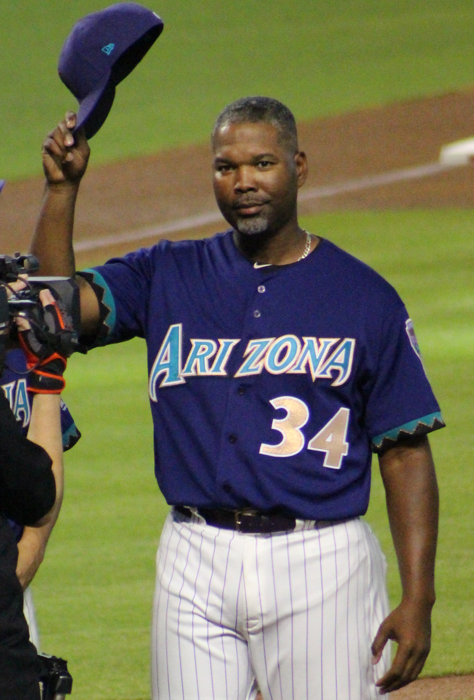 Stephen Randolph tips his hat to the crowd at Chase Field during player introductions before the Arizona Diamondbacks 2017 Alumni Game.